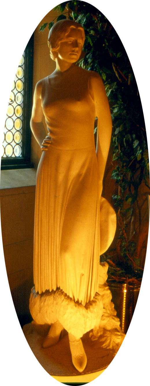 photo by Einar Einarsson Kvaran, statue of Lydie Marland in Ponca City, Oklahoma by Jo Davidson